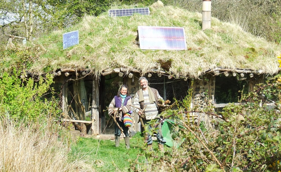 Tony and Faith outside That Roundhouse